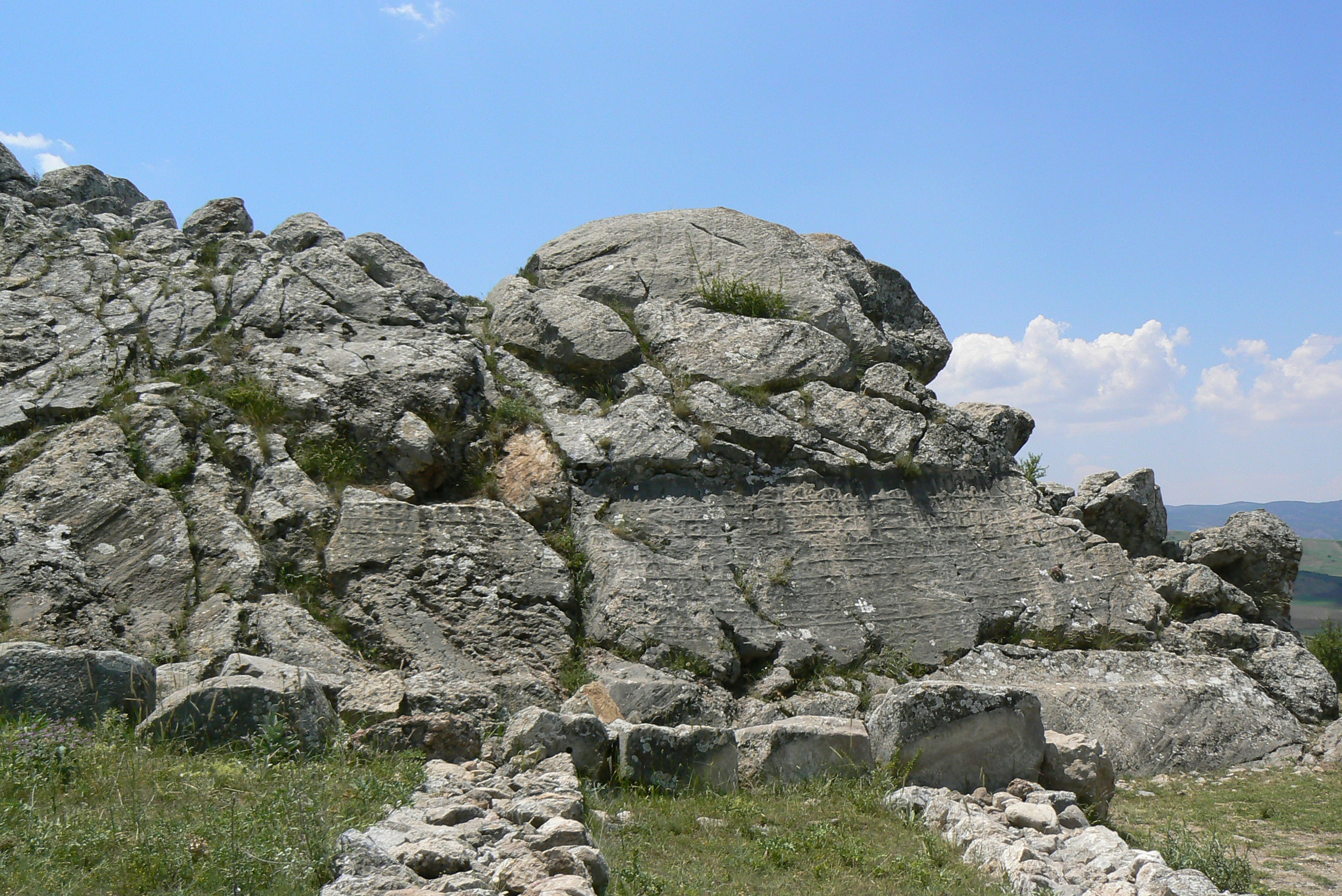 Luvian iscription on the cliff of Nisantas, Hattusa, Turkey